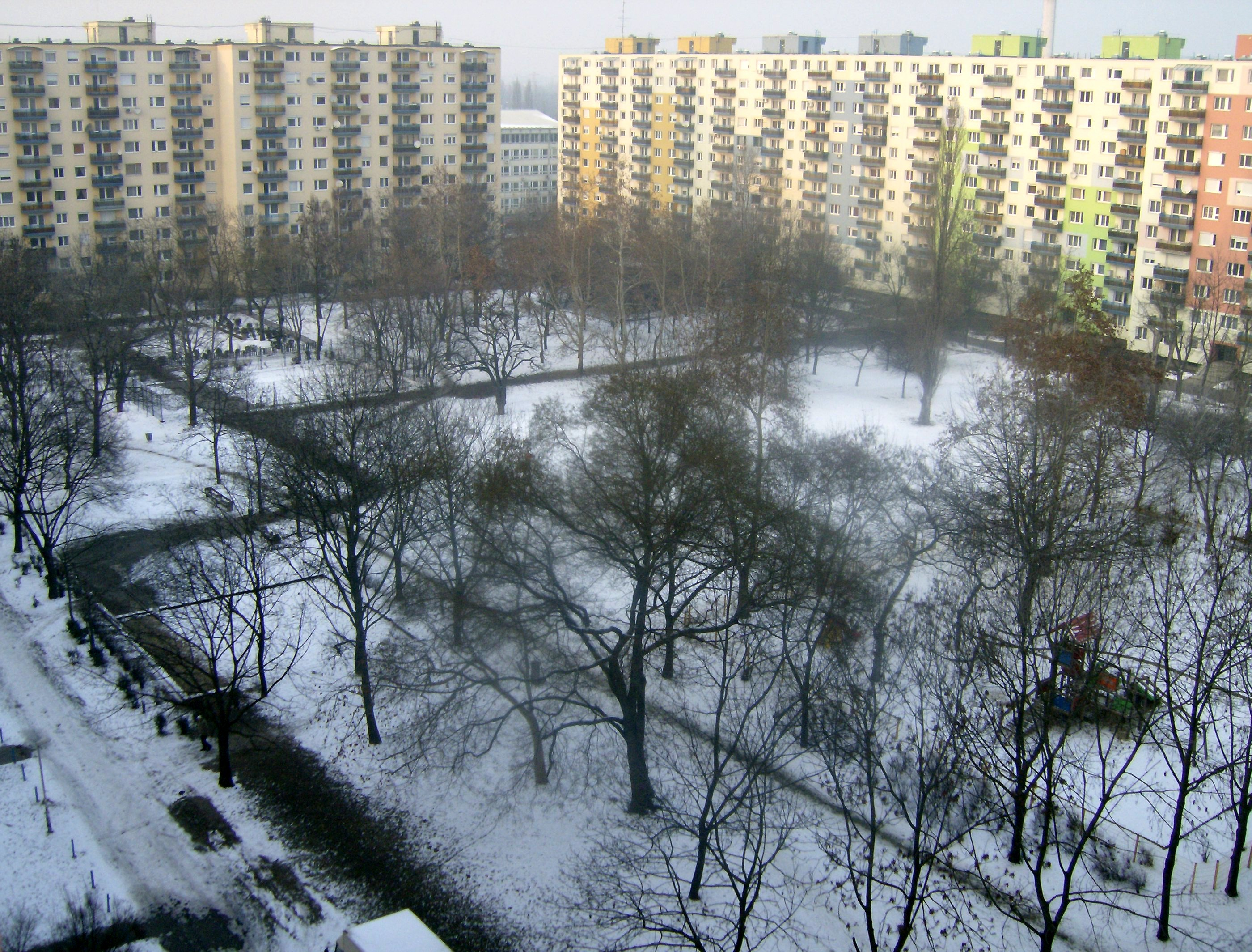 Some block of flats in the 10th district of Budapest